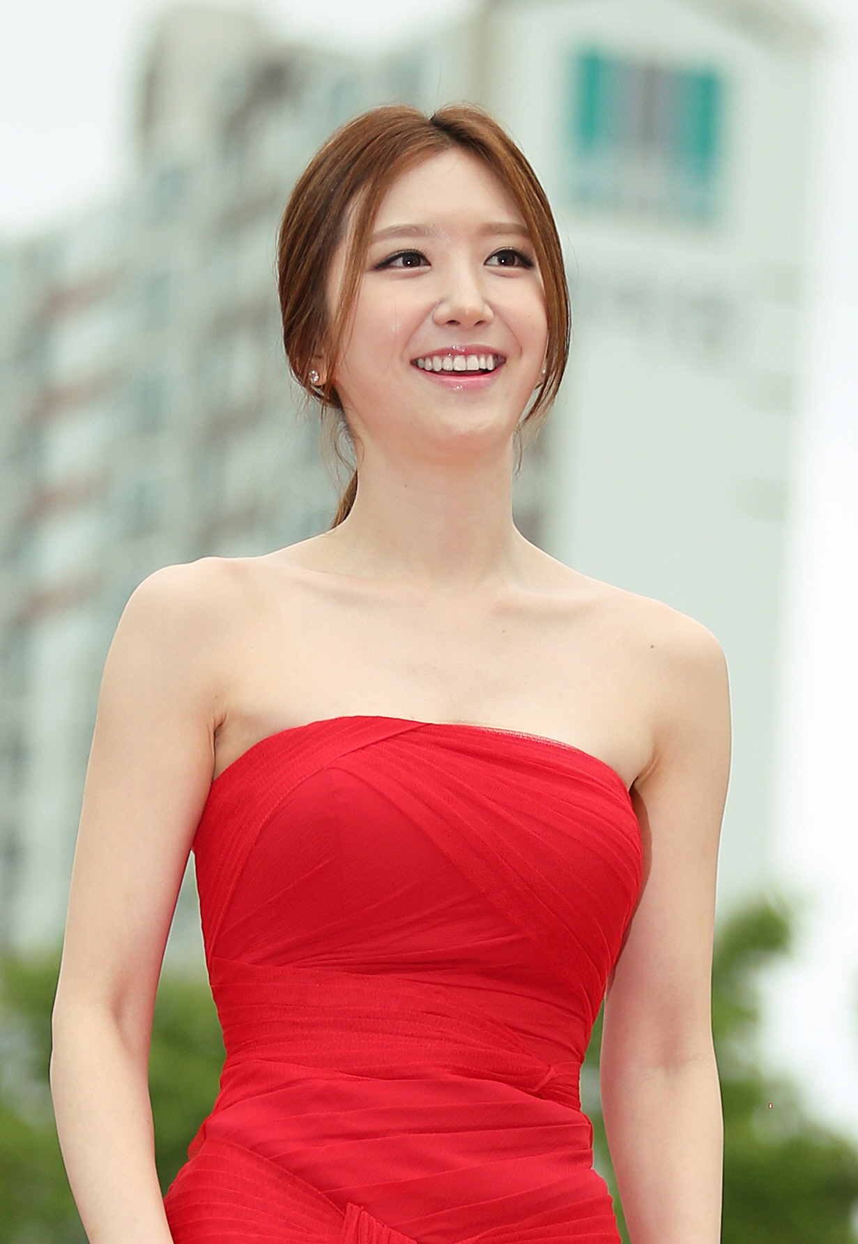 Actress Son Se-bin arrives at the red carpet event of the Pifan in Bucheon on July 17, 2014